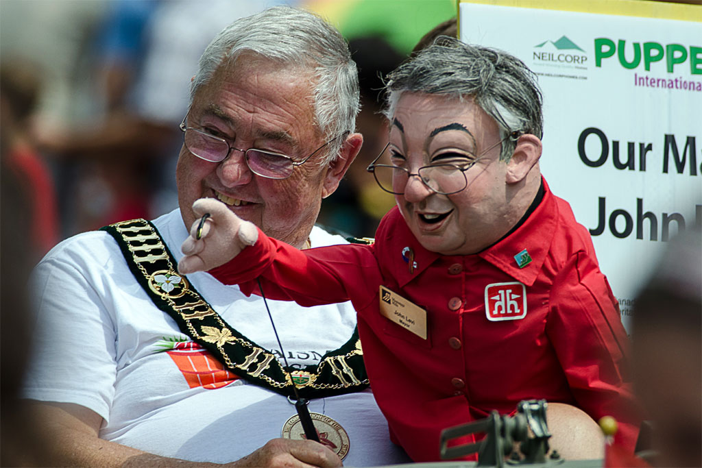 A caricature of the mayor of Mississippi Mills, Ontario, created by puppeteer Noreen Young.